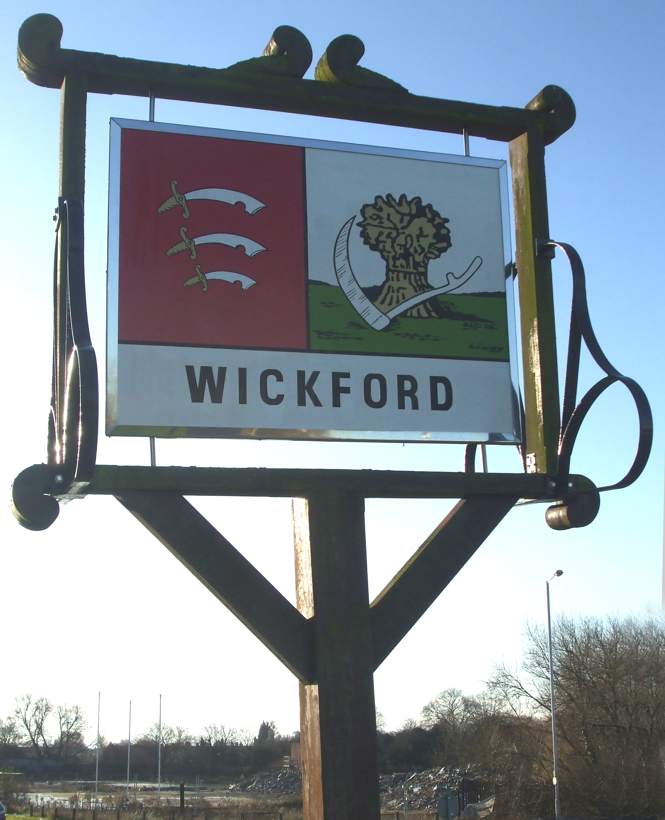 Wickford village sign